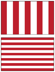 Sons of Liberty flags Created by using Adobe Photoshop Category:United States history images